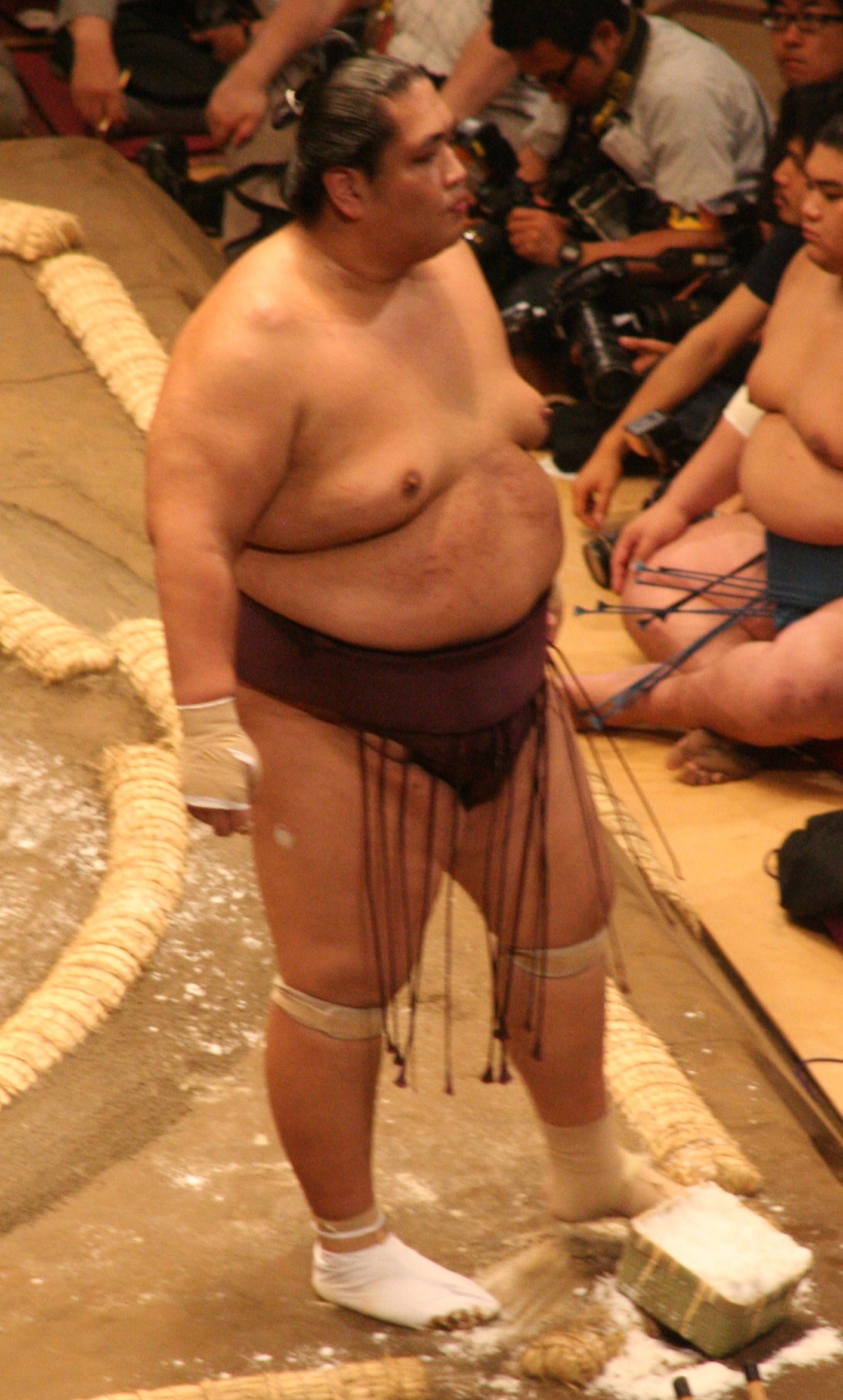 First day of 2009 May Sumo Tournament in Tokyo, Japan - Miyabiyama